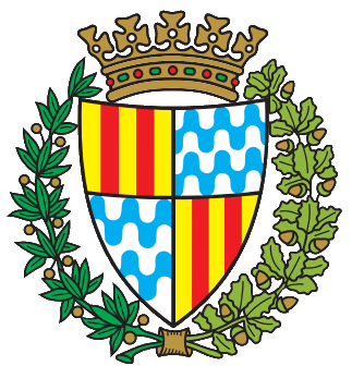 Coat of arms of Badalona, official version used by Badalona city council, approved in 1914. Modernist design by Lluís Domènech i Montaner.